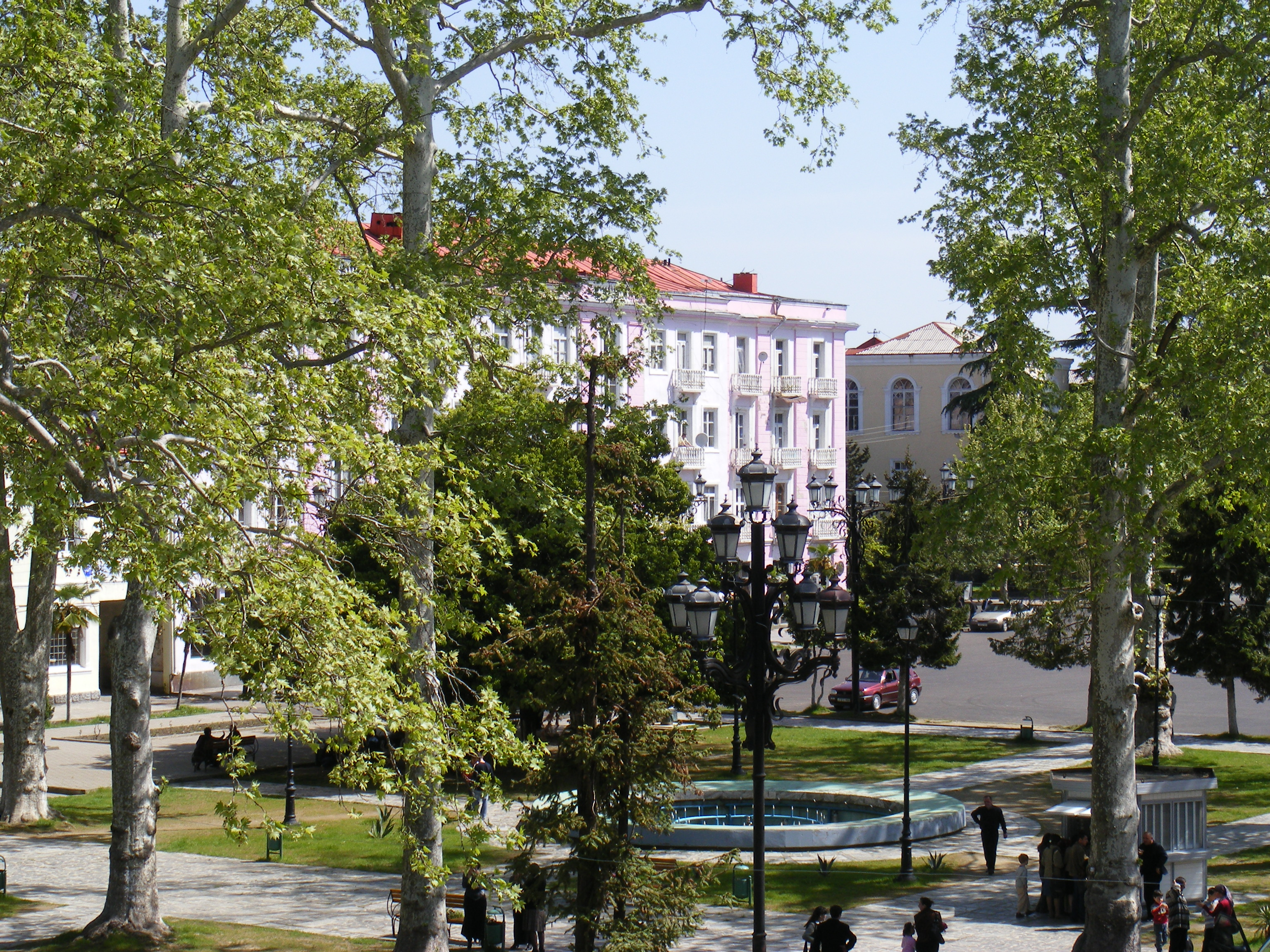 ქალაქ ოზურგეთის ცენტრალური ბაღი